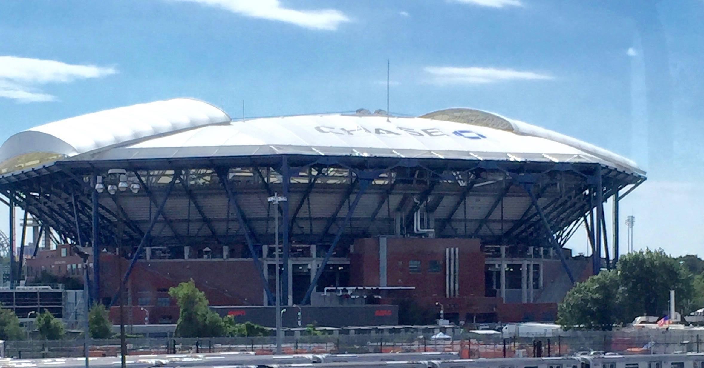 Arthur Ashe Stadium with retractible roof, 2016